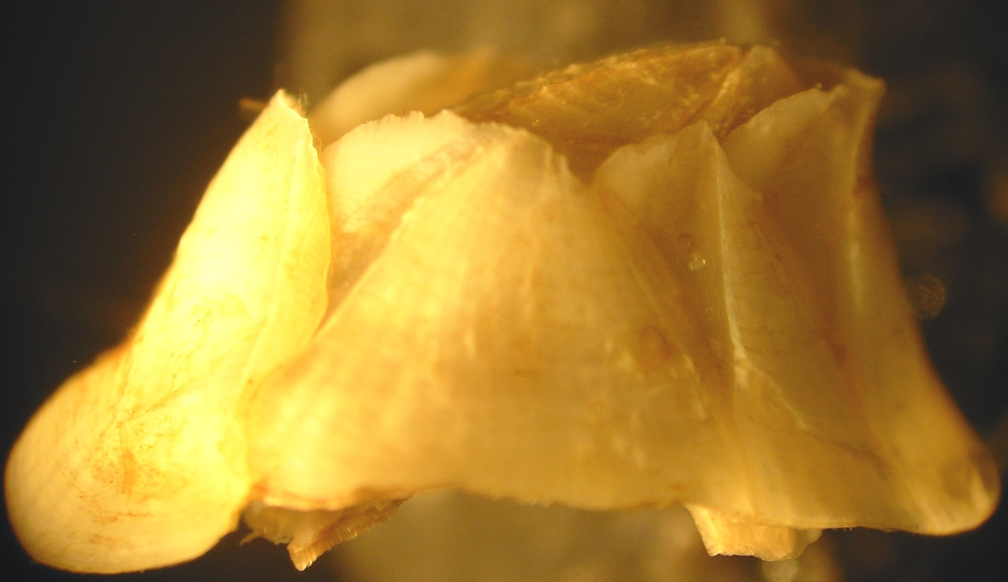 Balanus improvisus, side view.